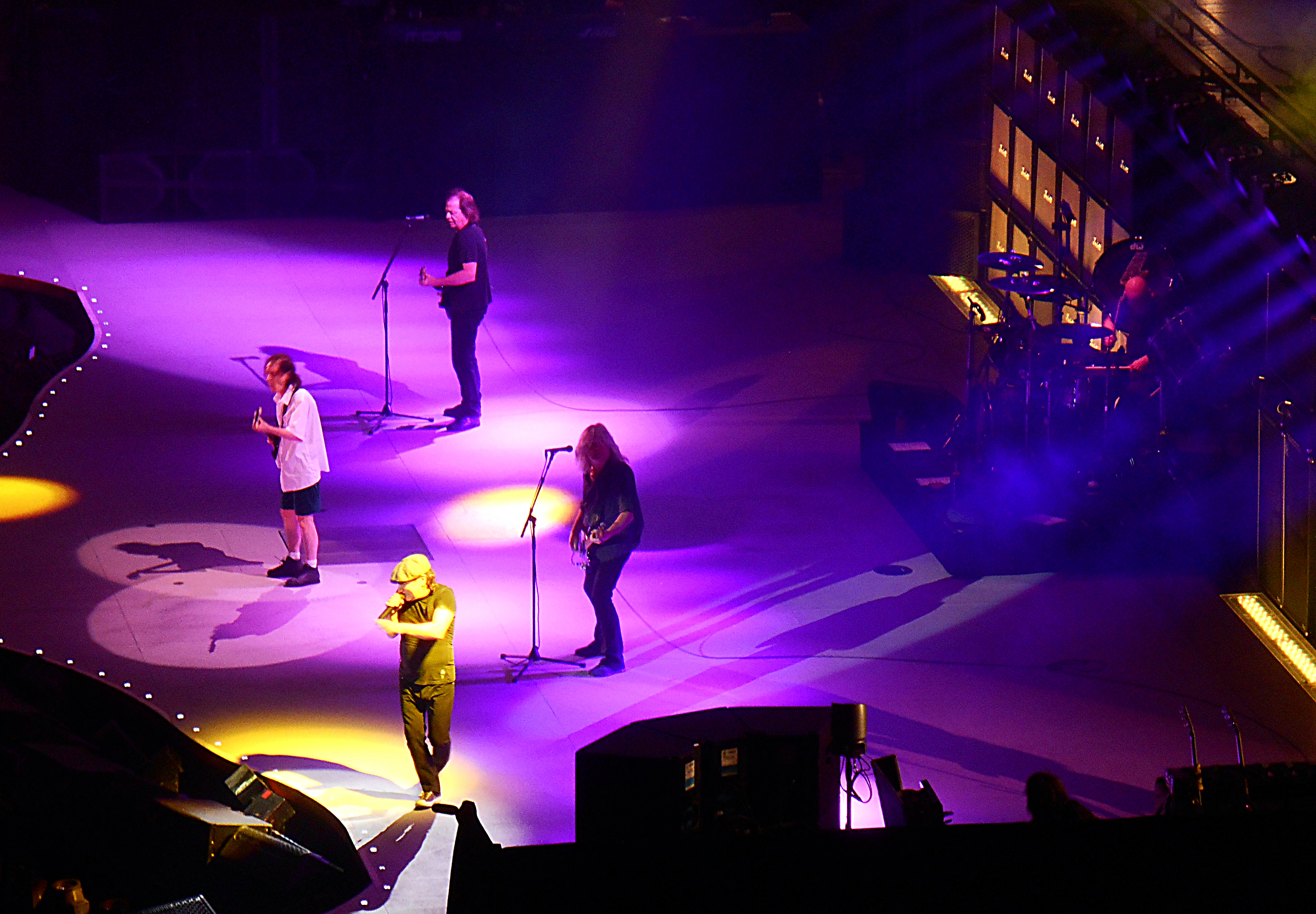 AC/DC performing at the Tacoma Dome in Tacoma, WA on February 2nd, 2016. Band members from left to right: Angus Young, Brian Johnson, Stevie Young, Cliff Williams and Chris Slade.